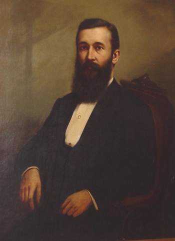 Portrait of Edward Follansbee Noyes, Governor of Ohio, hangs in room 108 of Ohio Statehouse. Oil on Canvas, 40 X 34 inches.